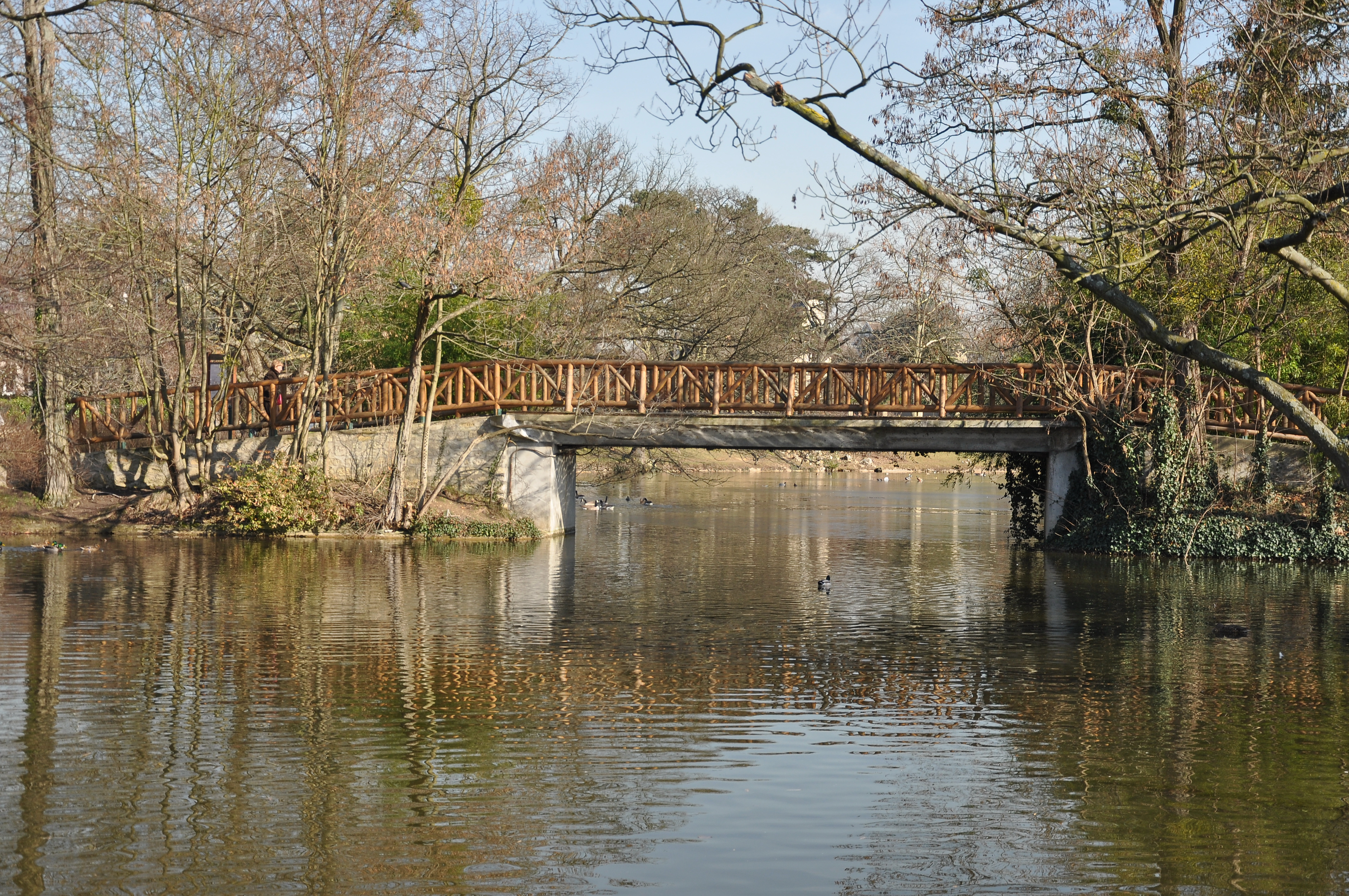 The north brigde over the Grand Lac des Ibis in Le Vésinet, department of Yvelines in France.